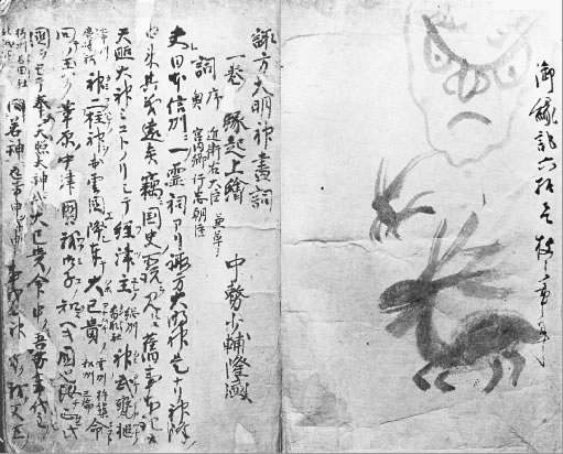 Front page of a manuscript of the Suwa Daimyōjin Ekotoba (諏方大明神画詞) known as the Gon-hōri-bon (権祝本). This copy was transcribed in 1472 by a monk named Sōjun (宗詢), who in turn was transcribing a two-volume handwritten copy of the text made by a monk of Shicchi-in Temple in Mount Kōya, Jōen (盛円). The original work, a twelve-volume illustrated scroll (emaki), was commissioned by Suwa Enchū and completed in 1356. The original scrolls have subsequently been lost; the text (without the illustrations) however were preserved in various manuscripts such as this one. Citations: Suwa Shishi Hensan Iinkai, ed. (1995), 諏訪市史 上巻 原始・古代・中世 (Suwa Shishi, vol. 1: Genshi, Kodai, Chūsei), Suwa, pp. 818-819. Jinchōkan Moriya Historical Museum, ed. (1991). 神長官守矢資料館のしおり (Jinchōkan Moriya Shiryōkan no shiori) (Rev. ed.). pp. 30–31.